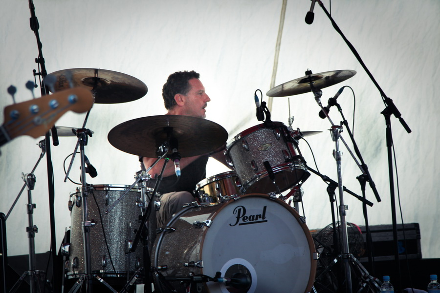 Performing at Hoodoo Gurus concert in Rottnest Island